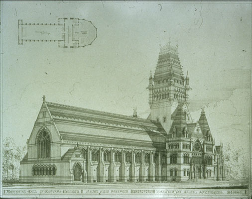 Memorial Hall (Harvard University), showing tower as originally built but modified almost immediately afterward